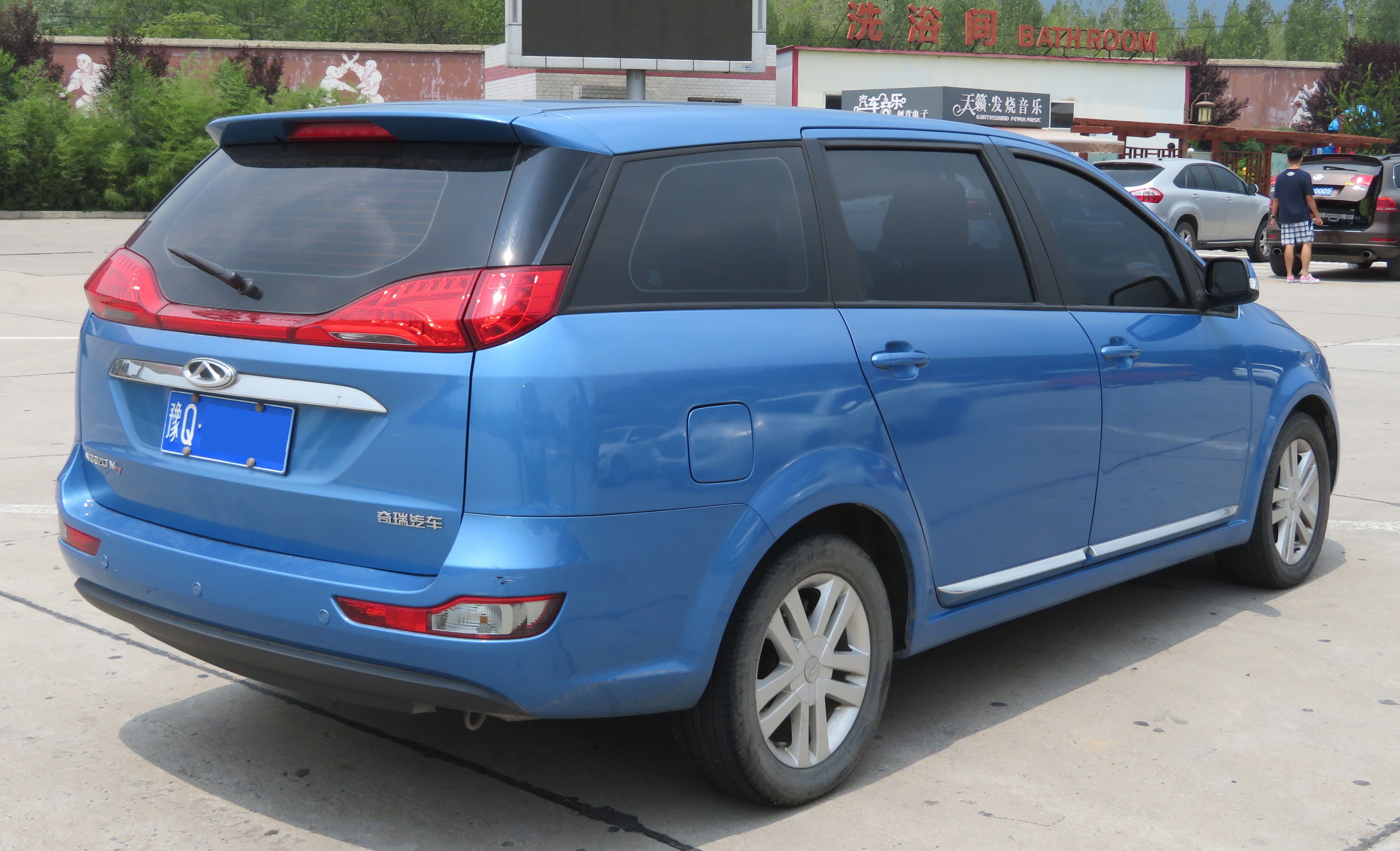 Photographed in Luoyang, Henan province, China